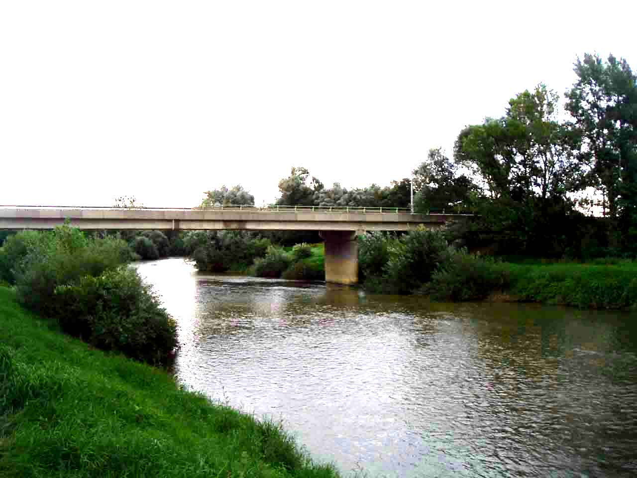 The bridge of the River Rába in Rum, Hungary